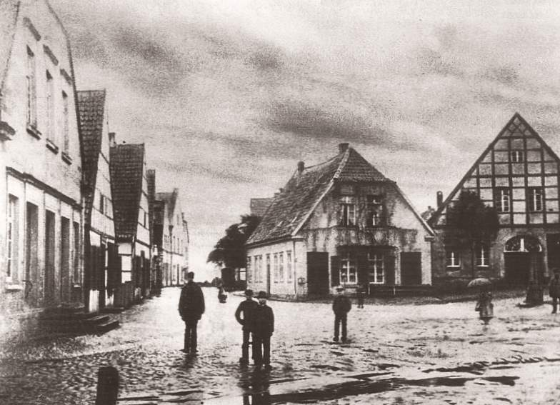 Lower market square of Ibbenbüren, Germany, around 1880.